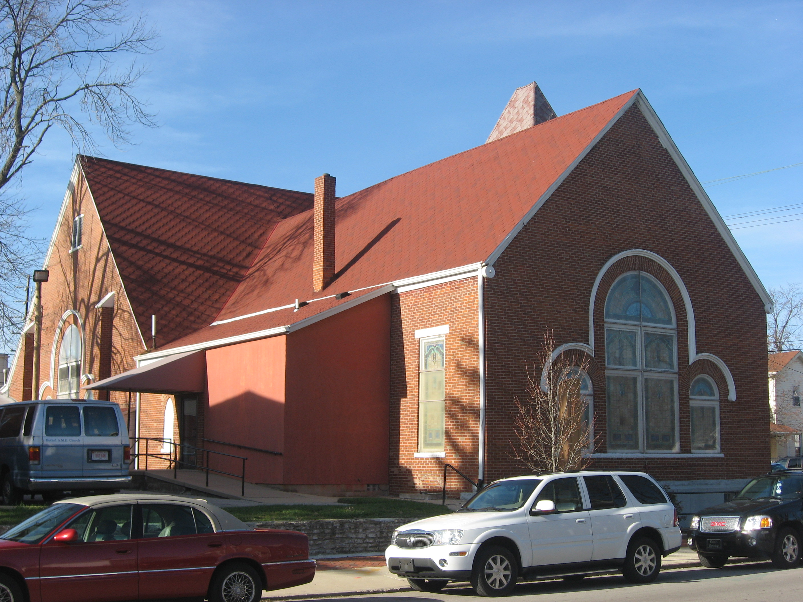 Front and southern side of Bethel A.M.E. Church, located at 200 S. Sixth Street in downtown Richmond, Indiana, United States. Built in 1854, the church is listed on the National Register of Historic Places, and it is part of a Register-listed historic district, the Old Richmond Historic District. Church website.